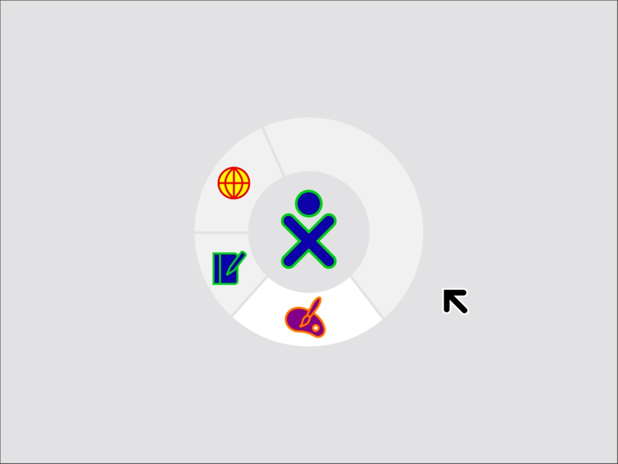 project "One Laptop per Child"; GUI "Sugar"; "home" view